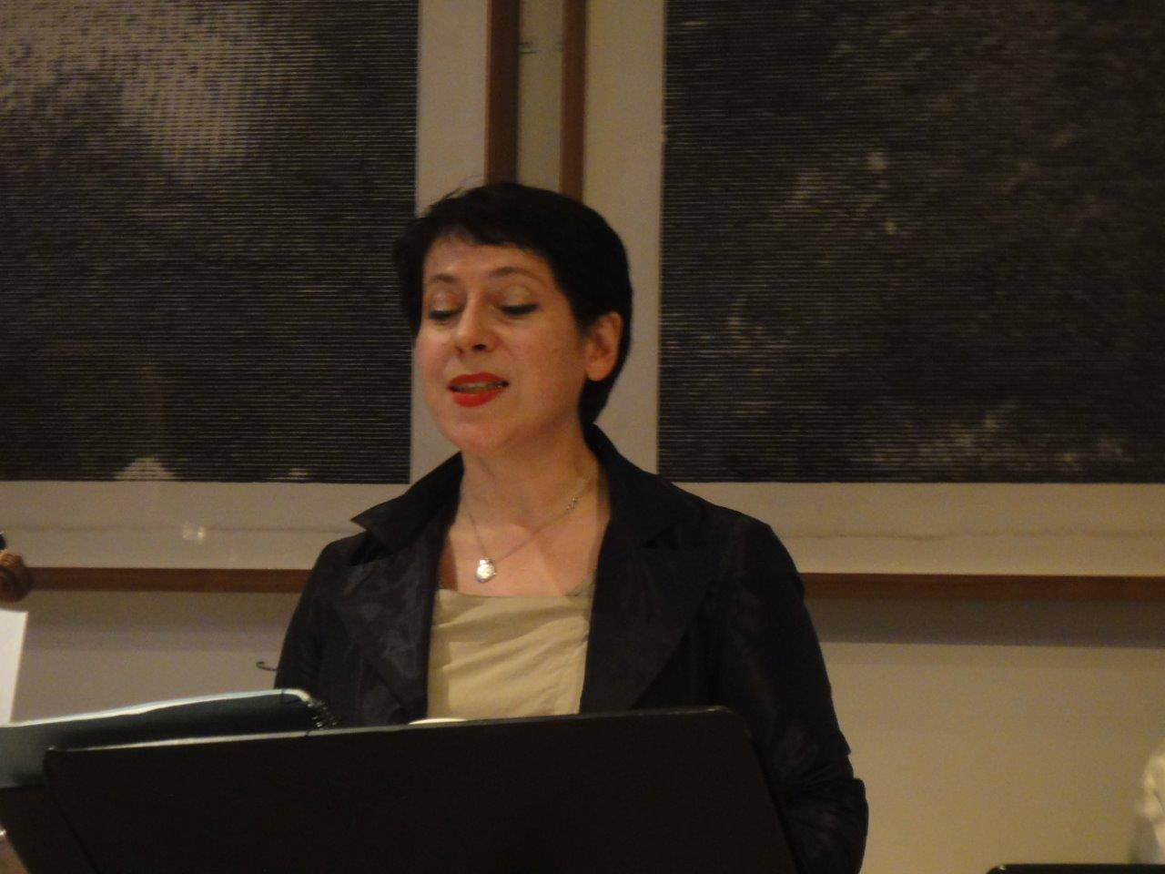 Lore Lixenberg Pharos Arts Foundation Concert at The Shoe Factory 2014